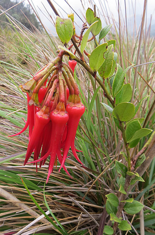 Endemic to the Ecuadorian Andes. Photo from Cayambi-coca Park, where it is known as Pico de Loro (parrot beak). In context at